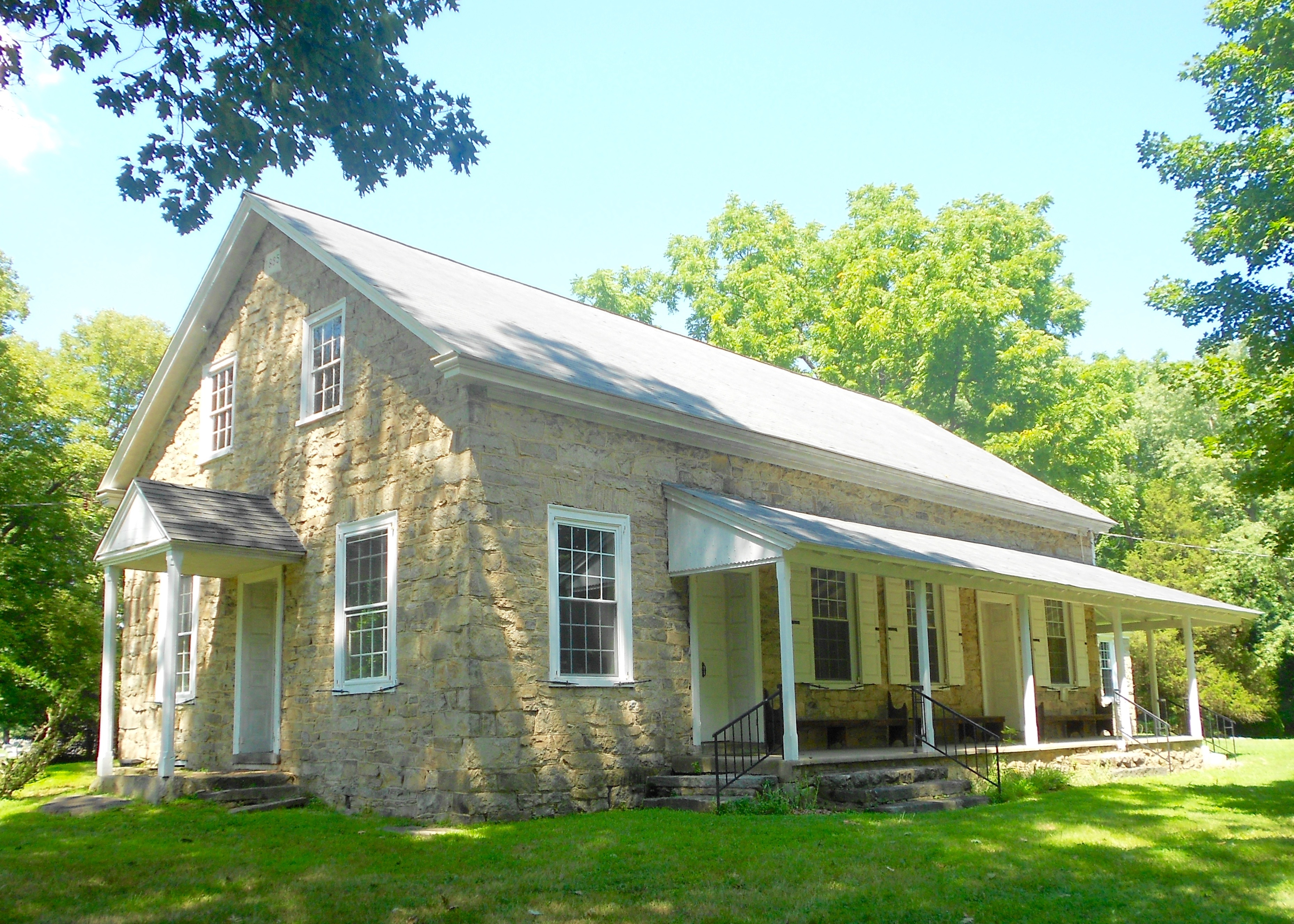 Middletown Preparative Meeting House (now a monthly meeting) Founding dates - 1686, 1701. Building dates 1702?, 1770s, 1888 . At 435 Middletown Rd, Lima, Middletown Township, Delaware County, Pennsylvania. 39.9245°N 75.4429°W